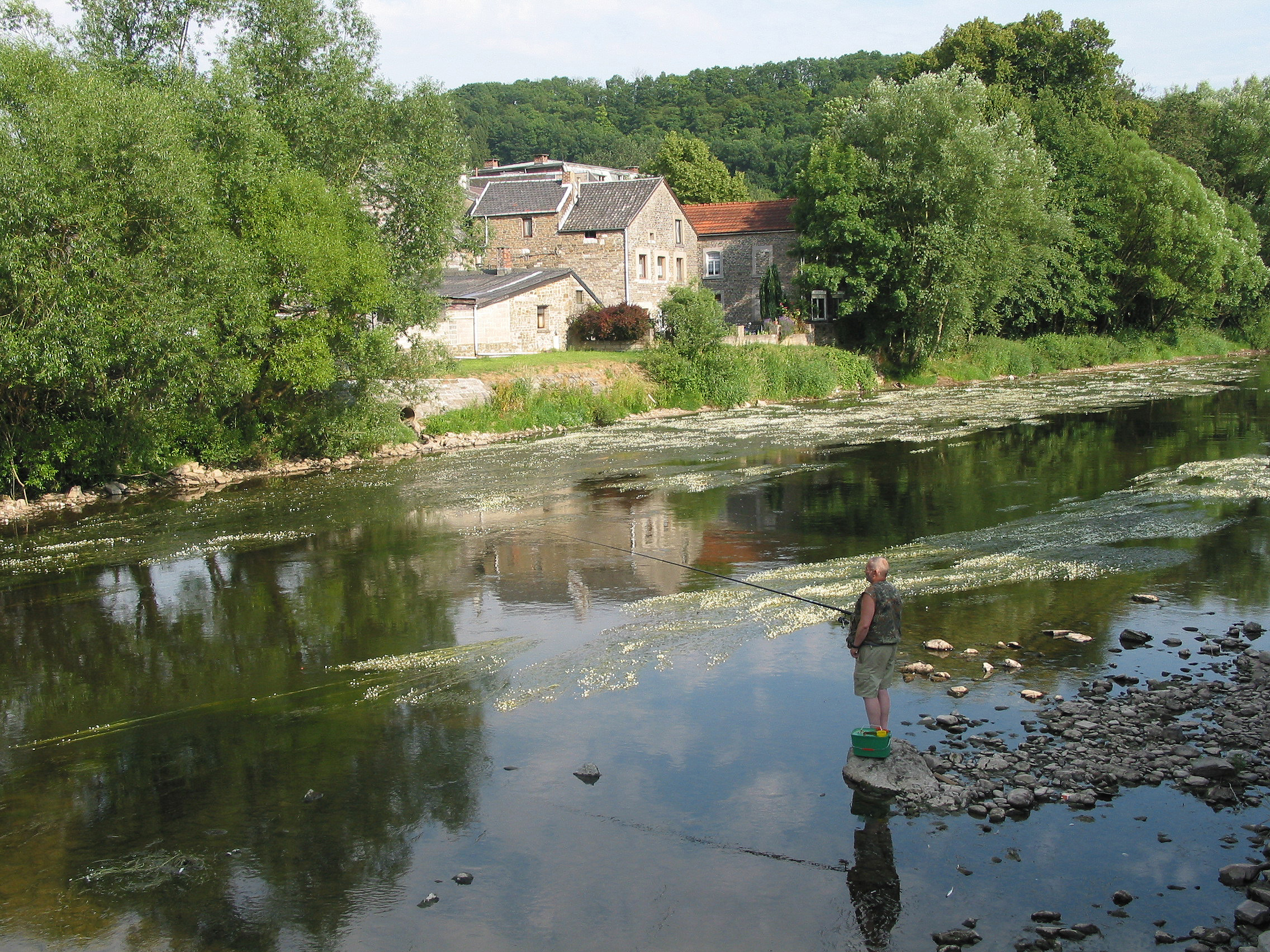 Comblain-la-Tour (Belgium), fisherman on the banks of the Ourthe river.